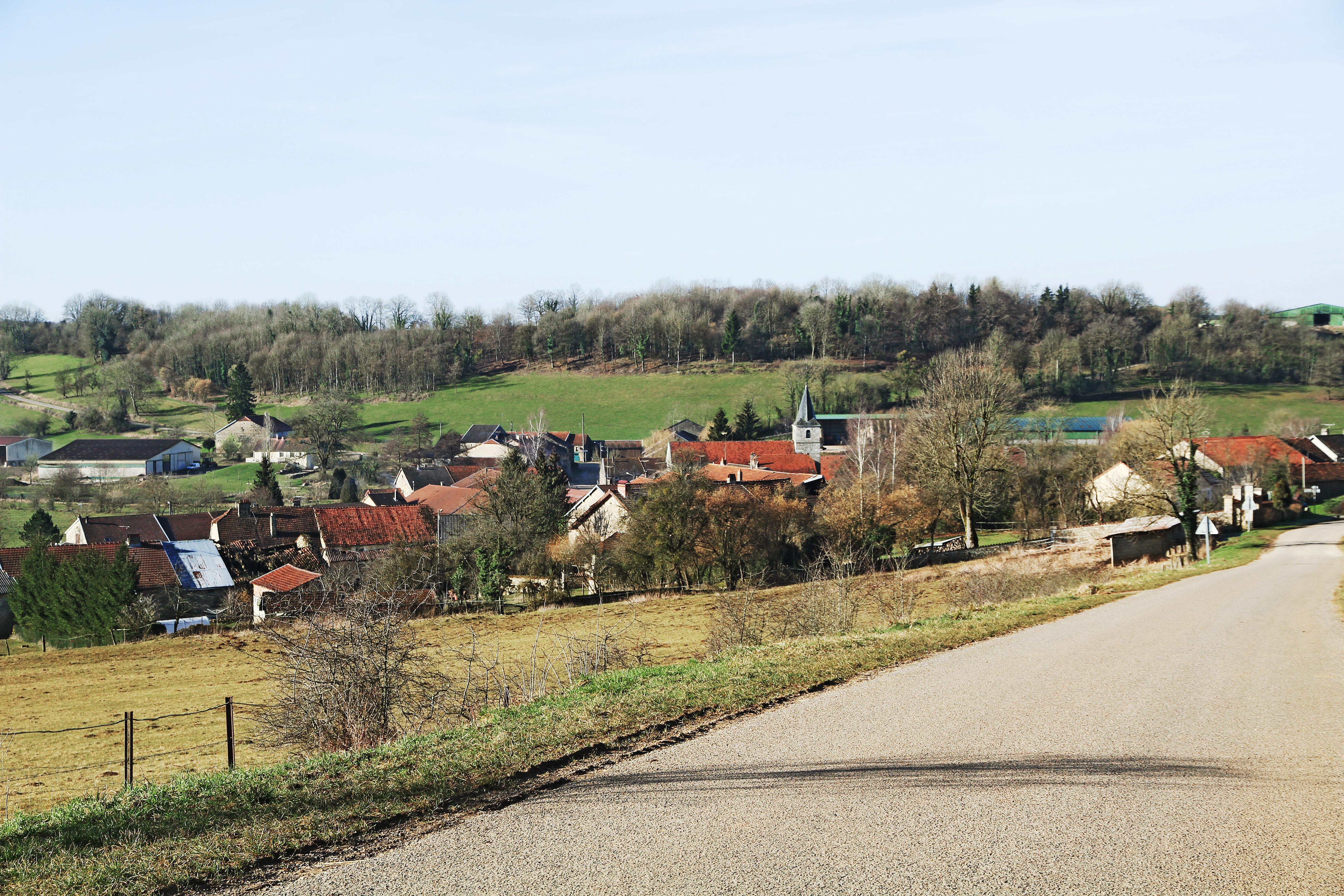 Ninville seen since the road to Buxières